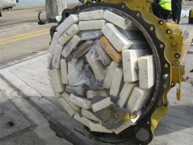 Cocaine with a street value of £8.25m has been seized by the UK Border Agency at Tilbury – the biggest single detection of class A drugs at the port in six years. The smugglers had hidden the drugs inside three pieces of industrial digger machinery shipped by container from Surinam and destined ultimately for Holland. Sections of the machinery had been hollowed out and then filled with 145 individual packages of the Class A drug, totalling 166kg. Read the full news story on the Home Office website